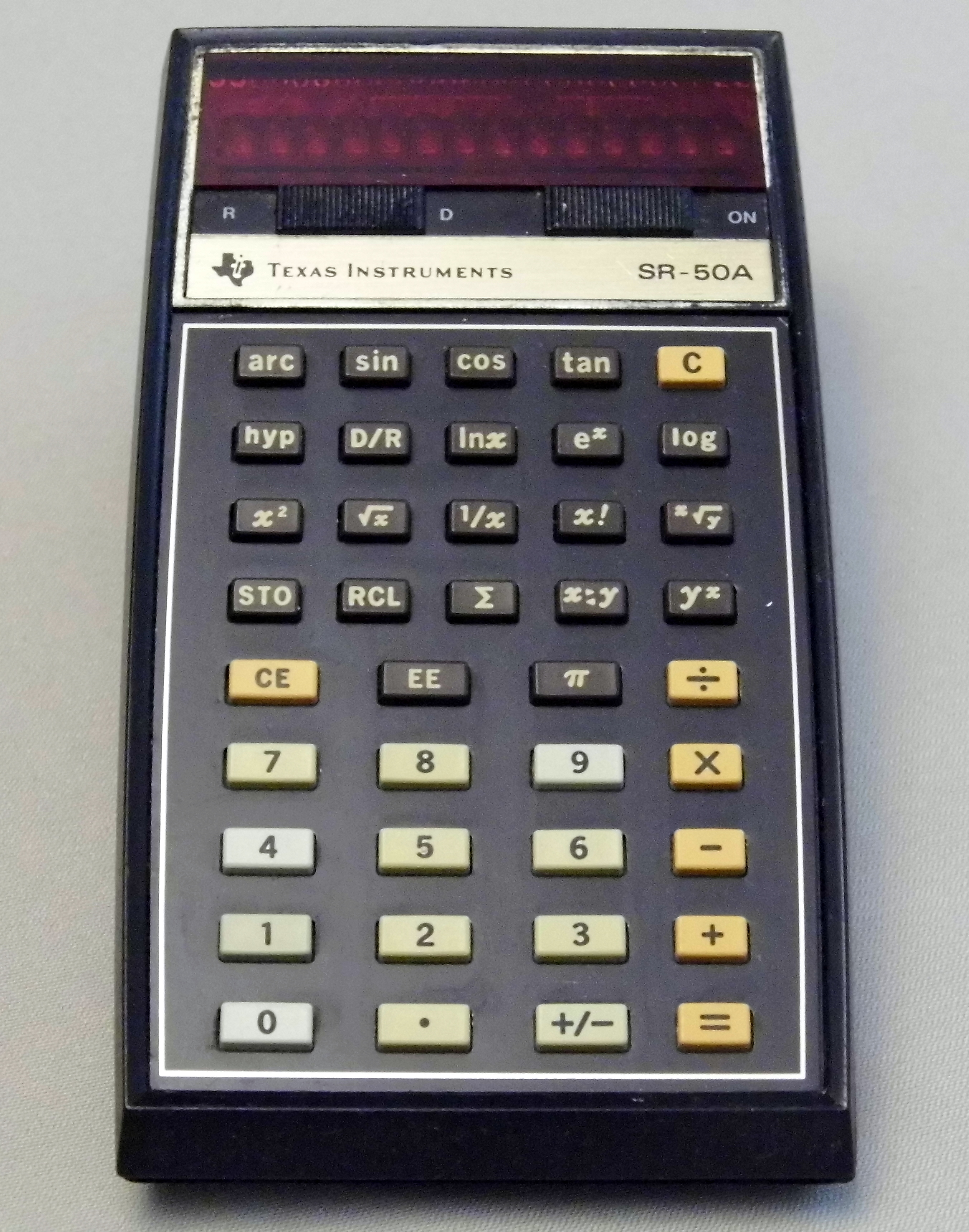 Listed in the Complete Collector's Guide to Pocket Calculators by Guy Ball and Bruce Flamm, Copyright 1979.